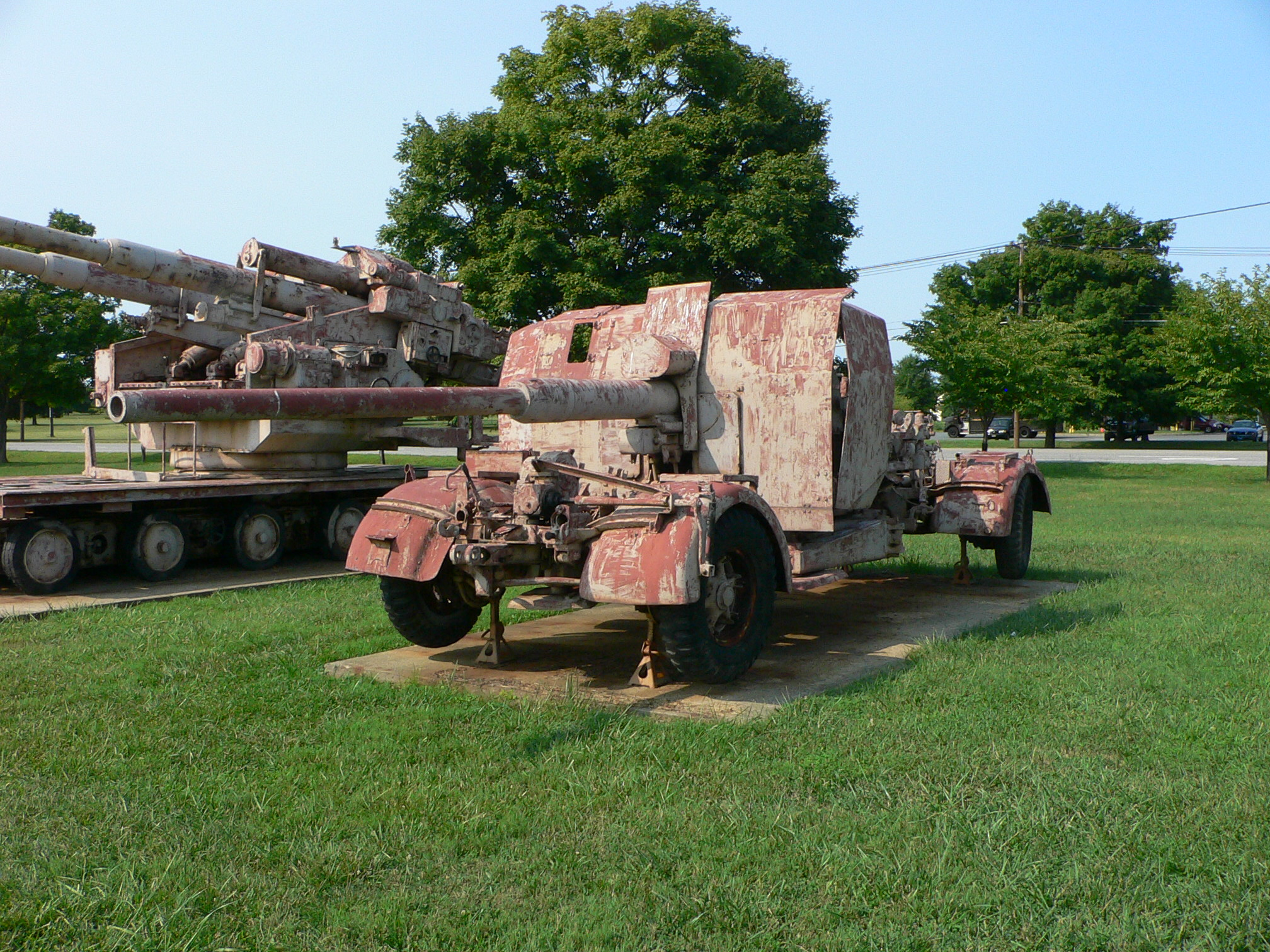 8.8 cm FlaK 41 at the United States Army Ordnance Museum (Aberdeen Proving Ground, MD)